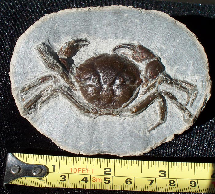 Fossil crab Pulalius vulgaris found in the Lincoln Creek formation, Grays Harbor county, WA. Prepared by Jason Boddy.